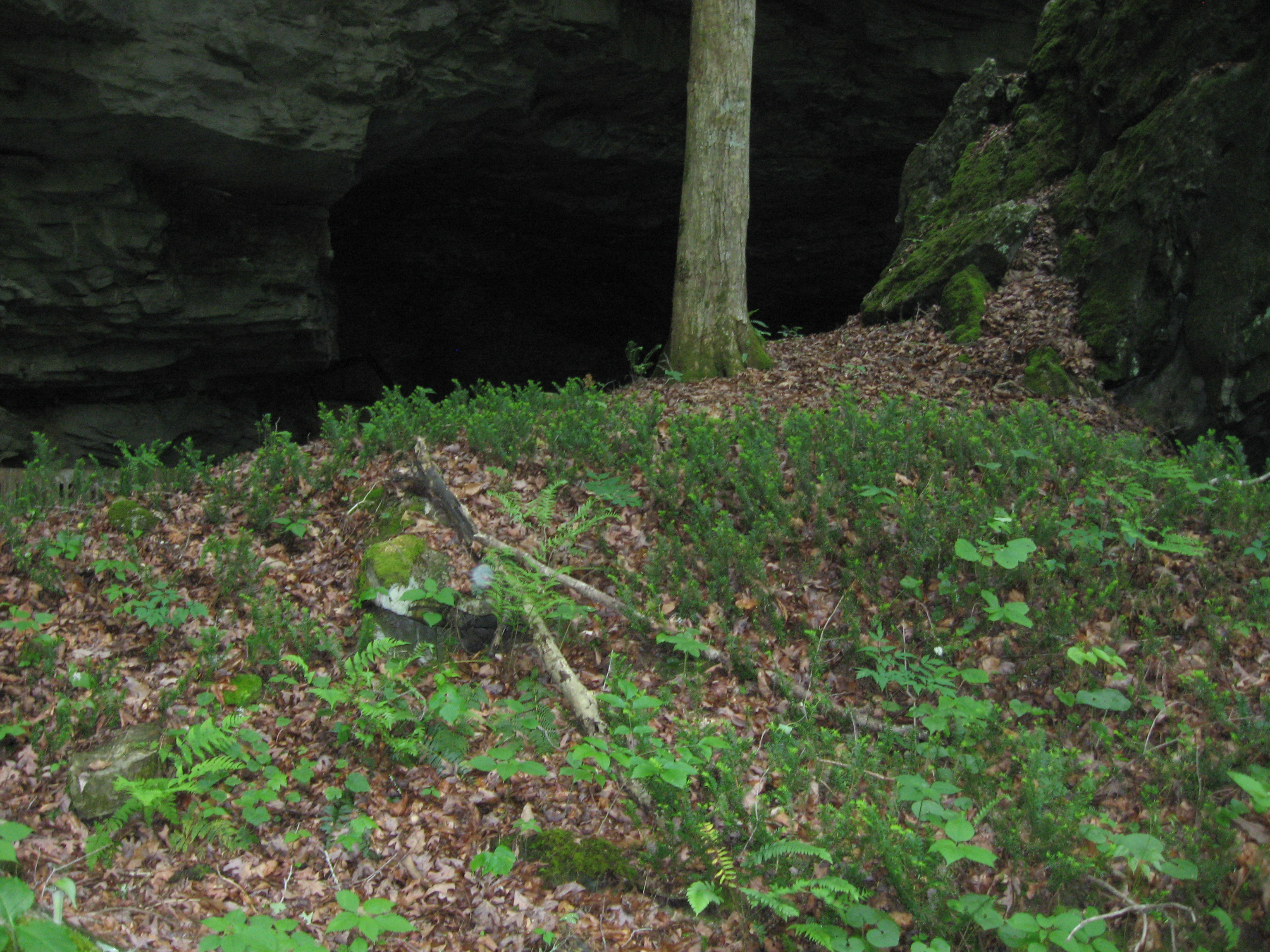 Taxus canadensis (Canadian yew) at the entrance to Cascade Caverns Nature Preserve in Carter County, Kentucky, United States